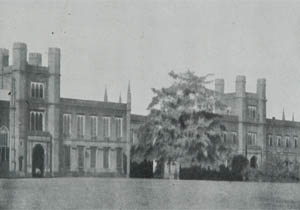 Bishop's College in Howrah (now Bengal Engineering and Science University, Shibpur), 1880